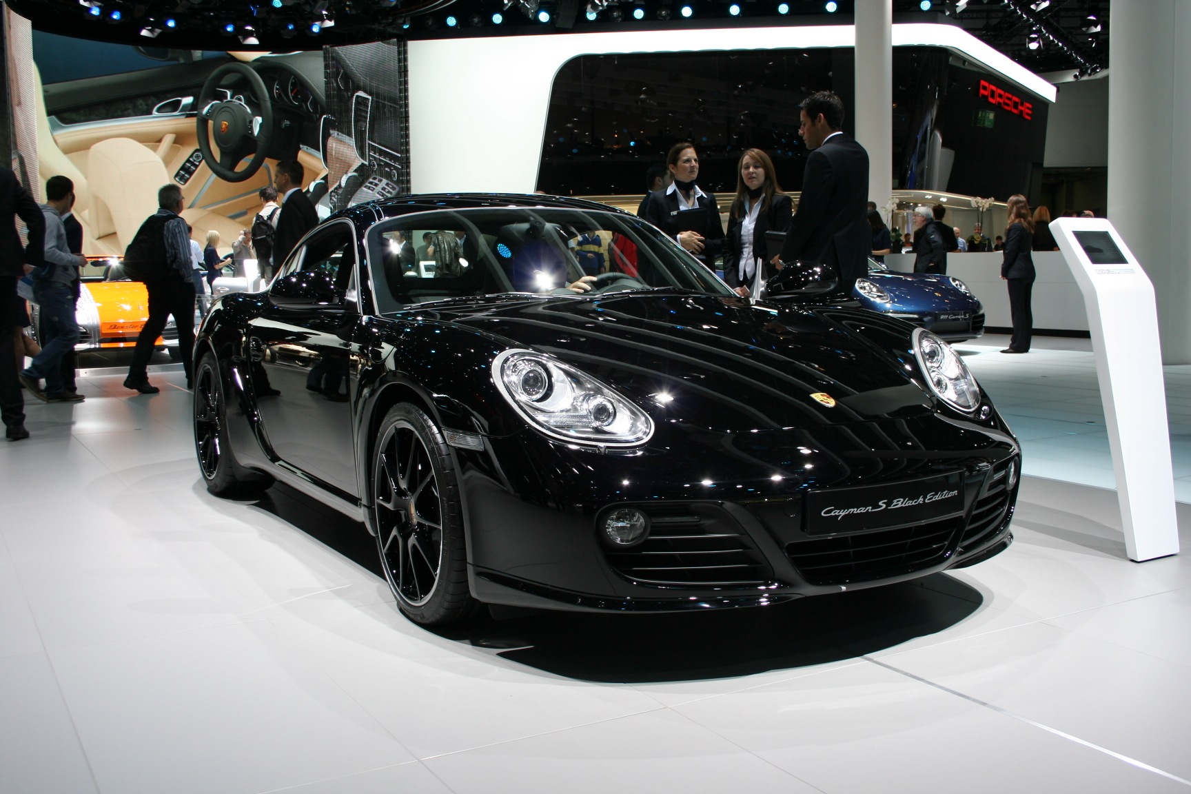 Porsche Cayman S Black Edition at IAA 2011